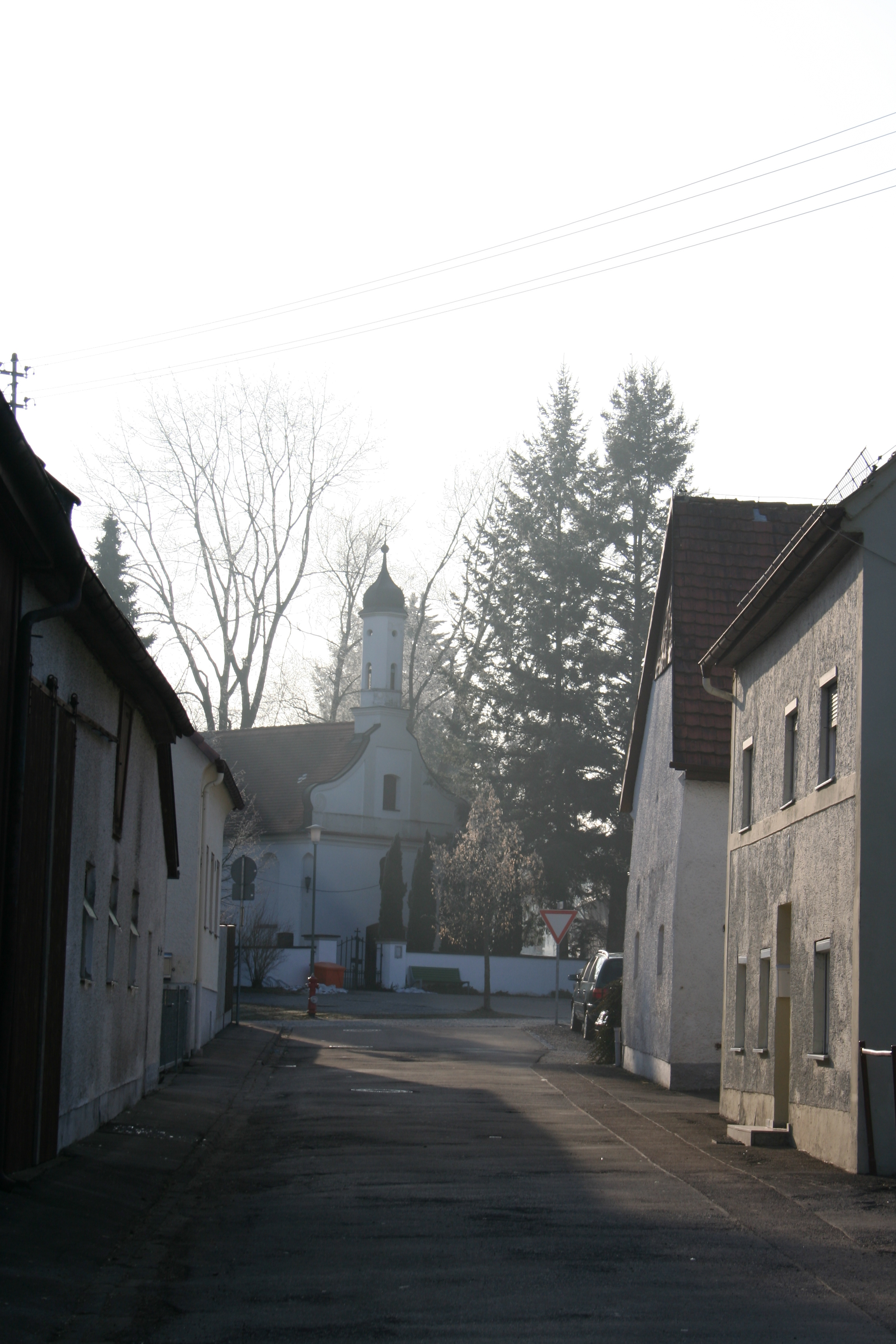 Cemetery-chapel in the west-cemetery in Krumbach (Swabia)